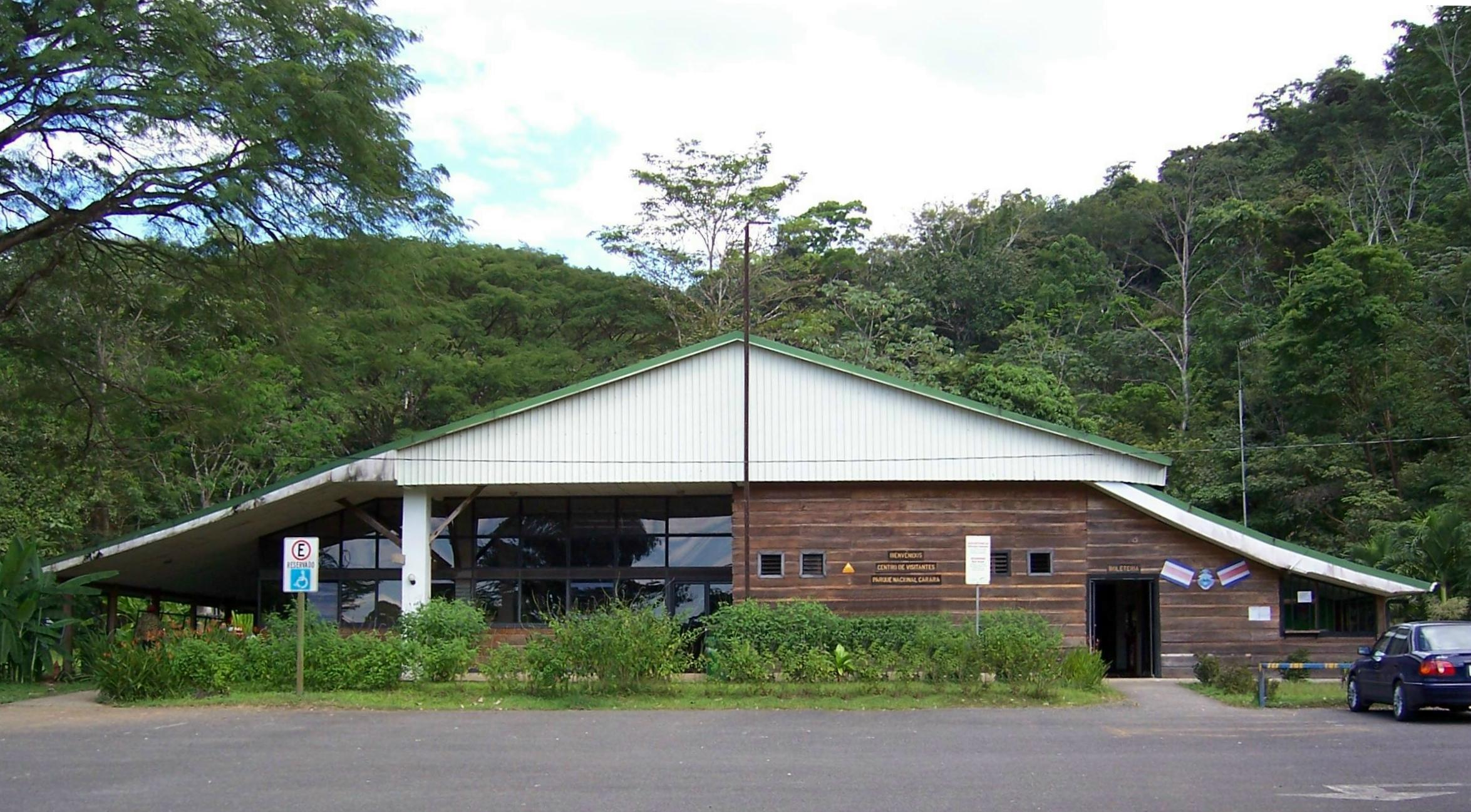 National Parc Carara, Costa Rica, Entrance